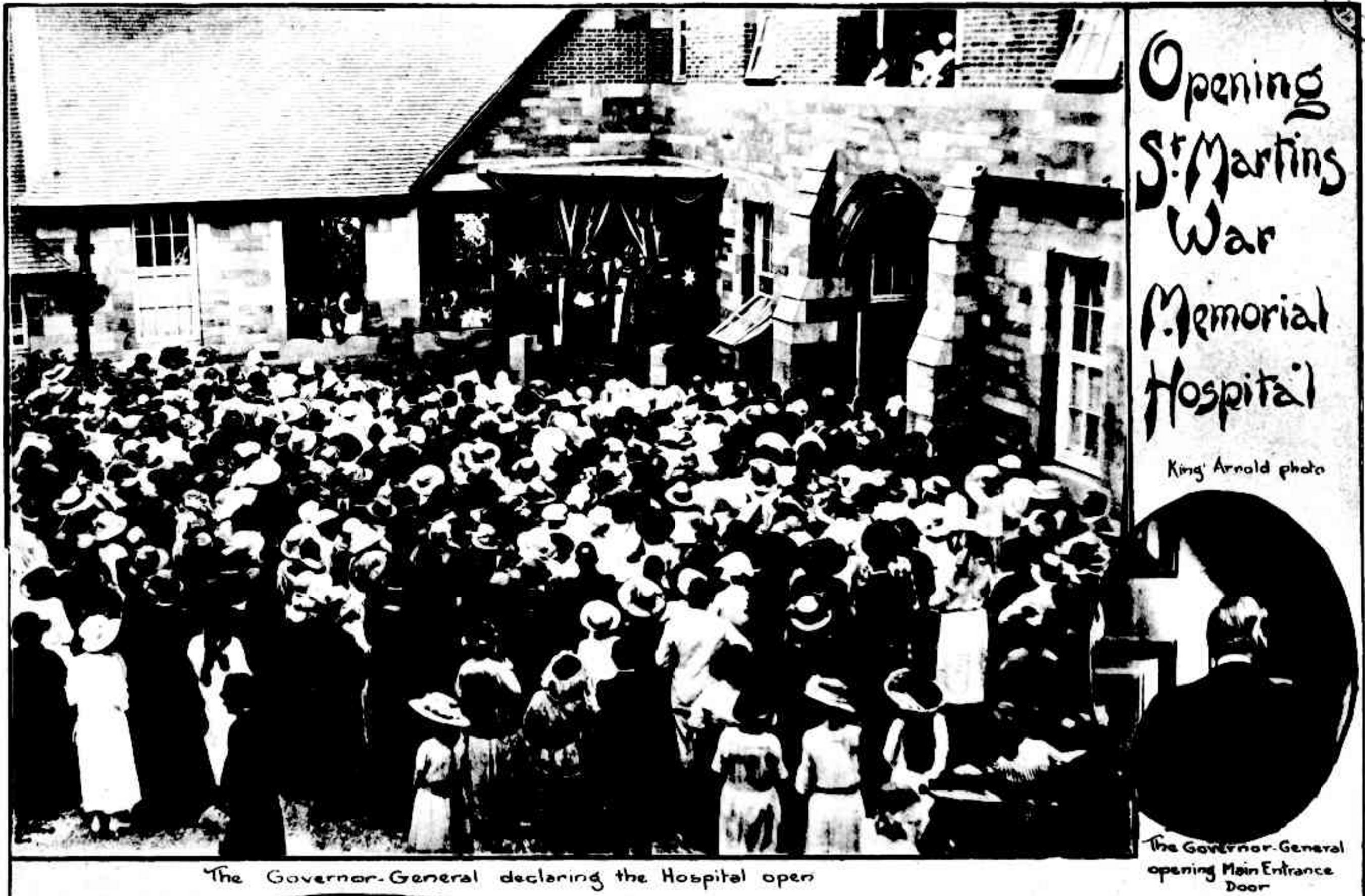 Opening St Martin's War Memorial Hospital, King Arnold photo